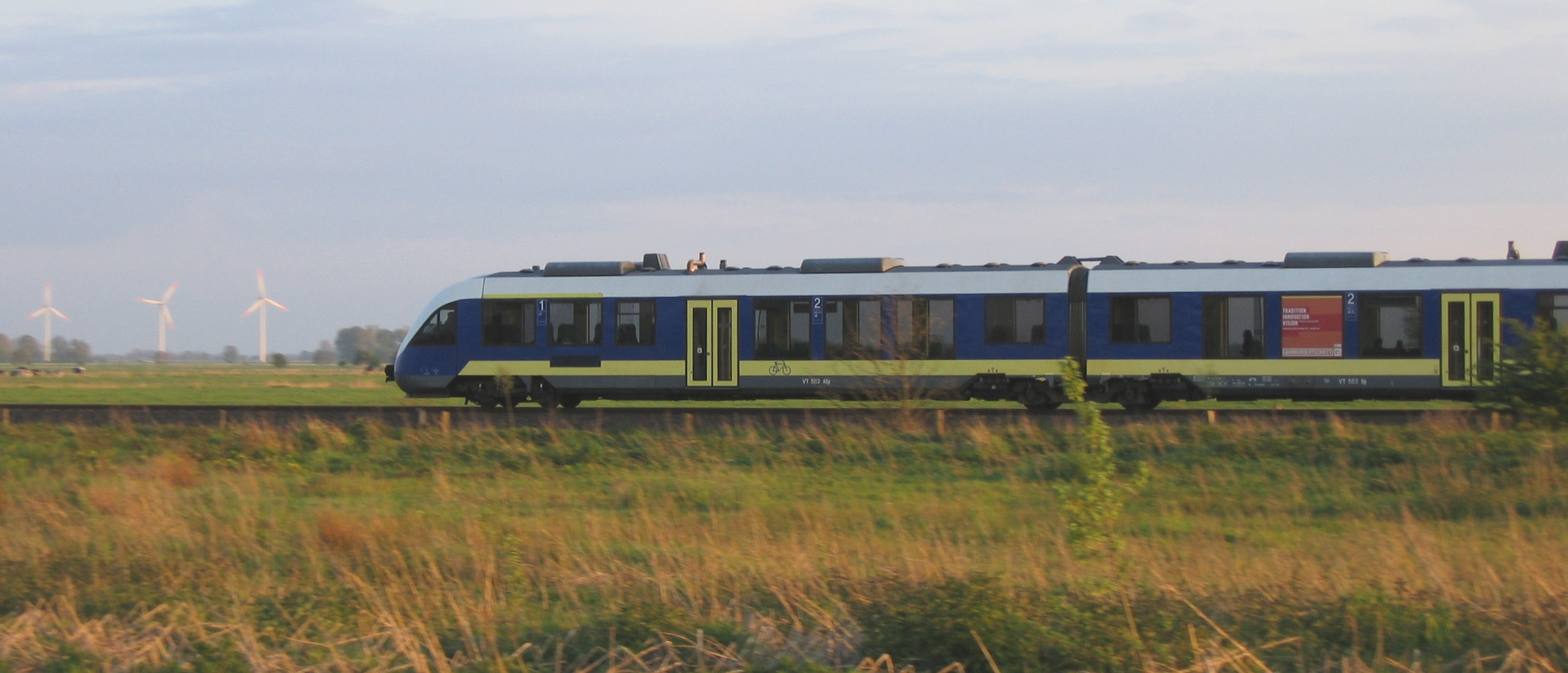 A train of the NordWestBahn on its way to Sande near Schortens.